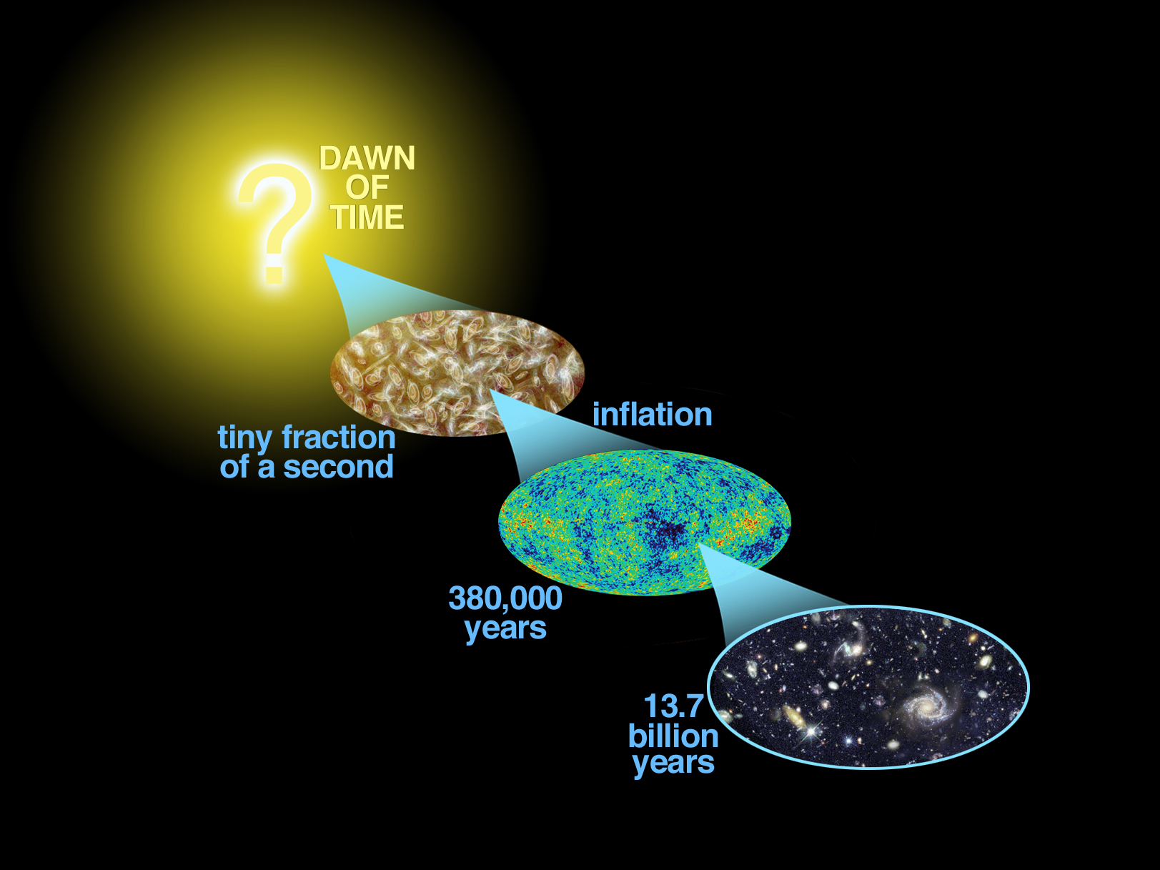 WMAP observes the first light of the universe- the afterglow of the Big Bang. This light emerged 380,000 years after the Big Bang. Patterns imprinted on this light encode the events that happened only a tiny fraction of a second after the Big Bang. In turn, the patterns are the seeds of the development of the structures of galaxies we now see billions of years after the Big Bang.